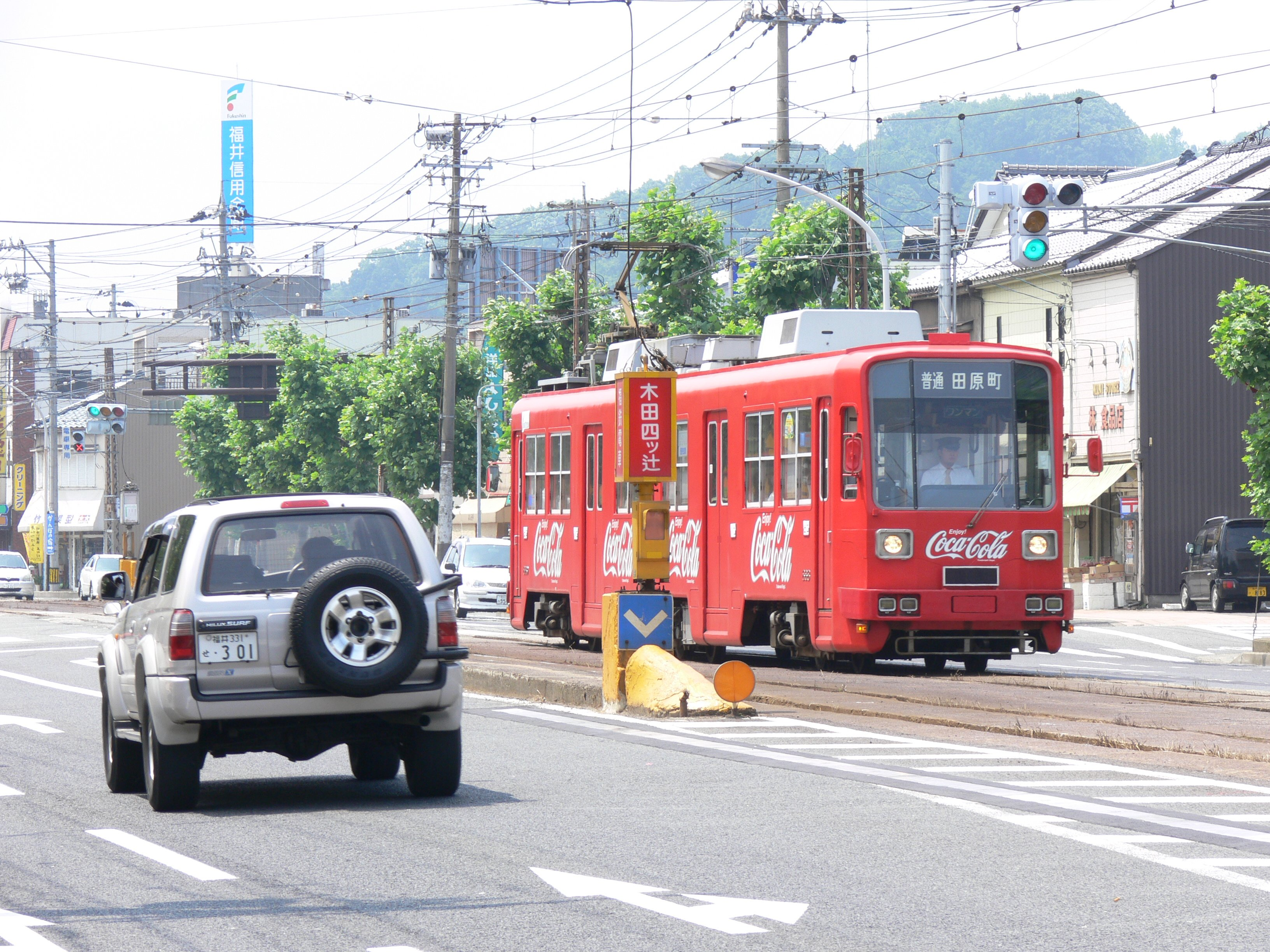 Kidayotsutsuji Station platform